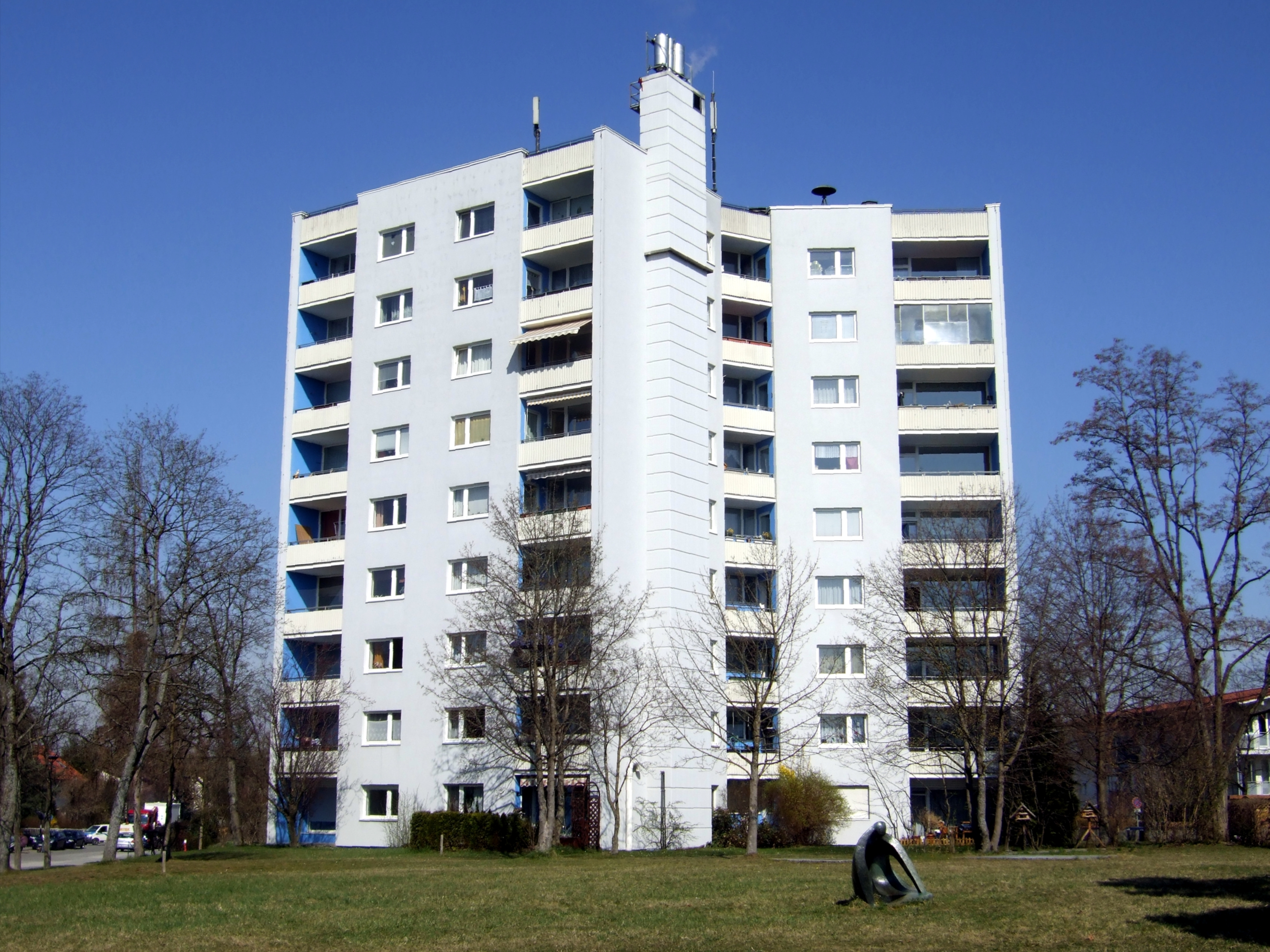 Ottobrunn (6 Rubensstraße): nine-storey high-rise